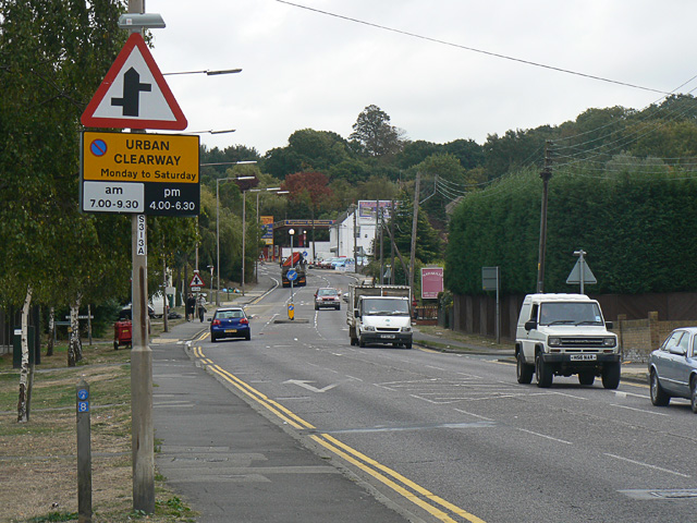 The Bread and Cheese Hill on the A13, Benfleet This is just the lower slopes of the hill. Just beyond the bend at the top it steepens considerably to the Hadleigh plateau. The clearway facilitates the slow-moving vehicles on the hill